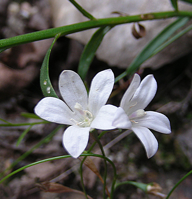 Known in garden circles as Tuffy Bells, and in Chile as uña-perquen In context at